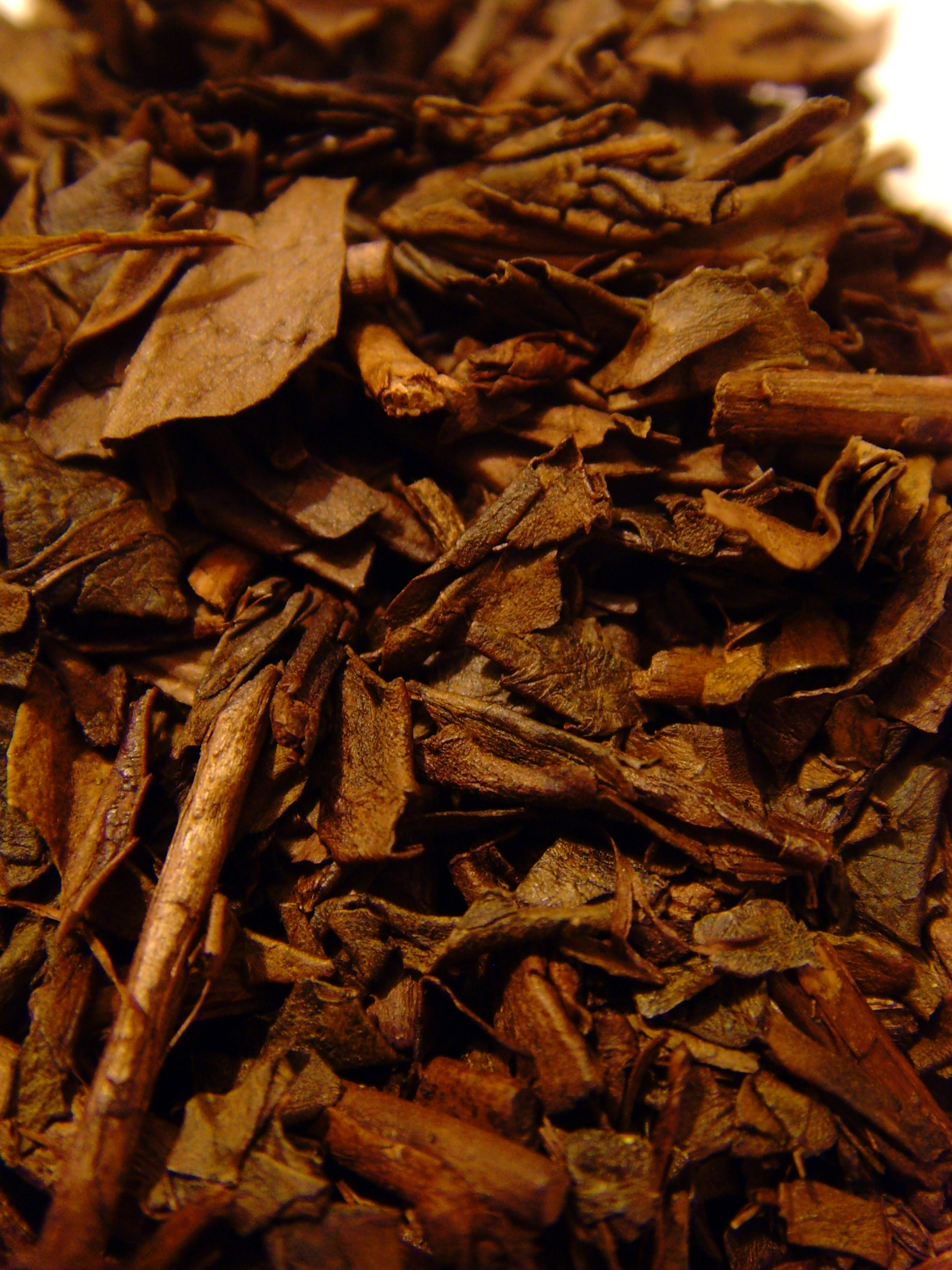 Houjicha close up